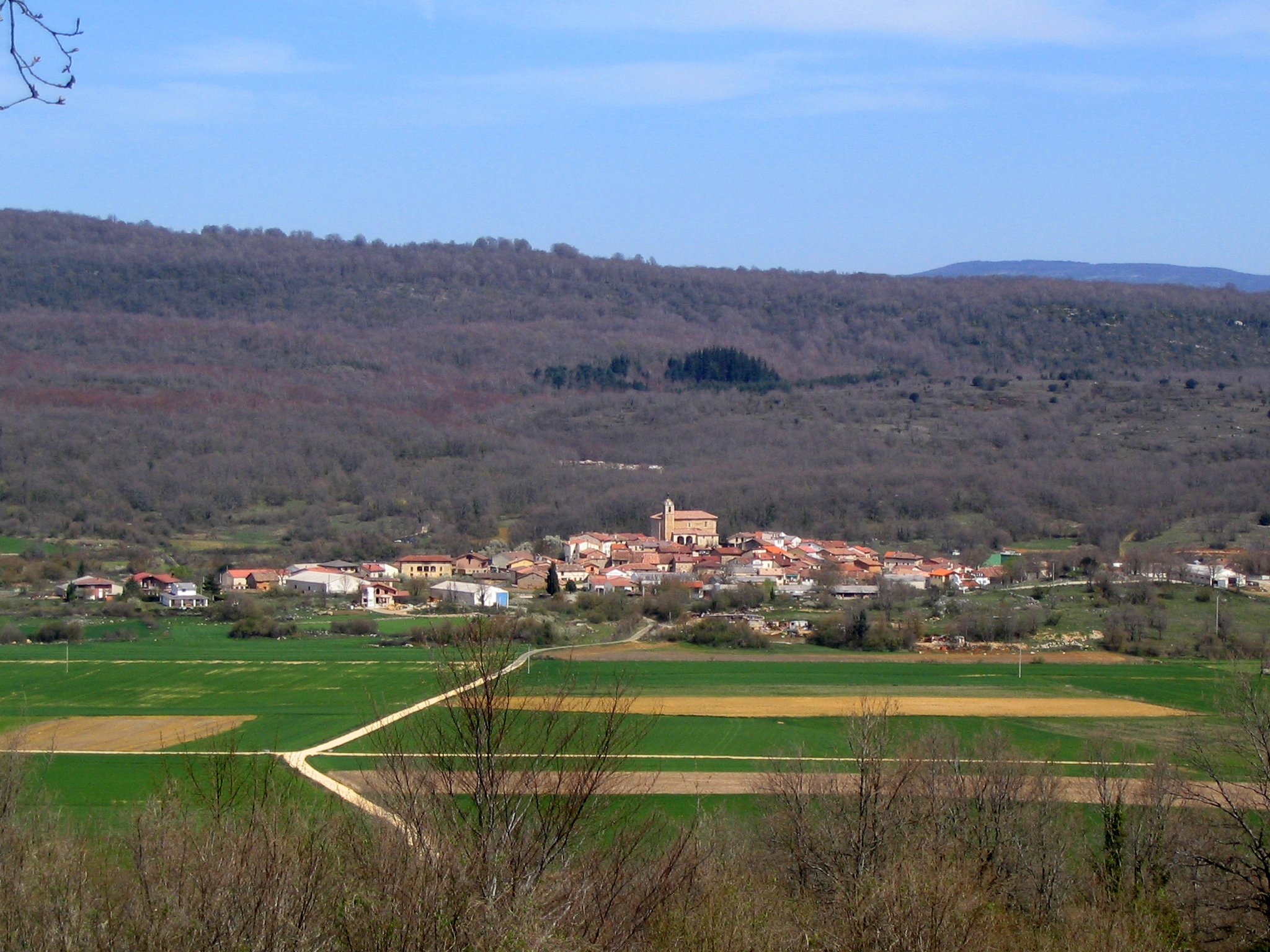 Lagran (Araba, Basque Country)